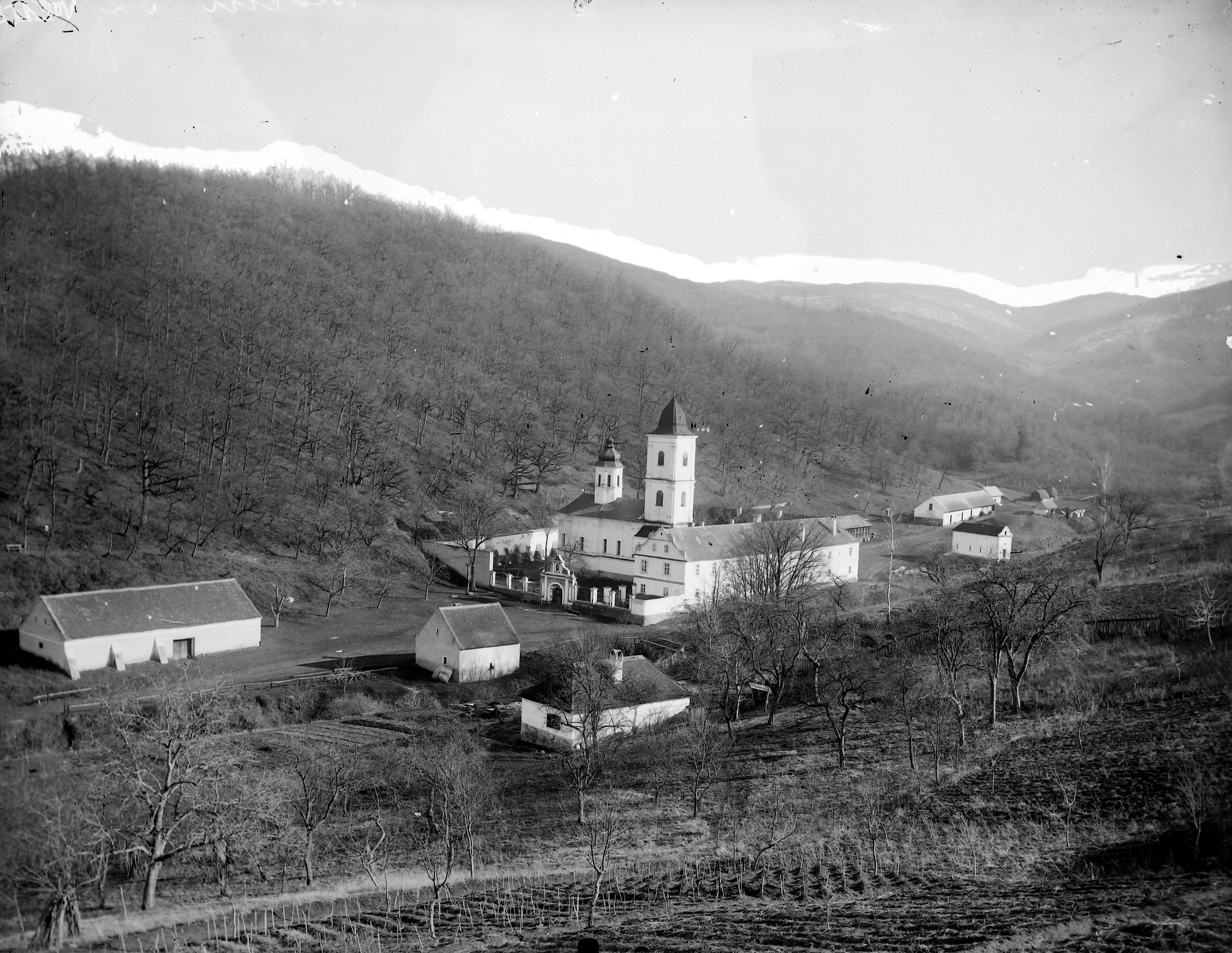 Beočin Monastery in Serbia